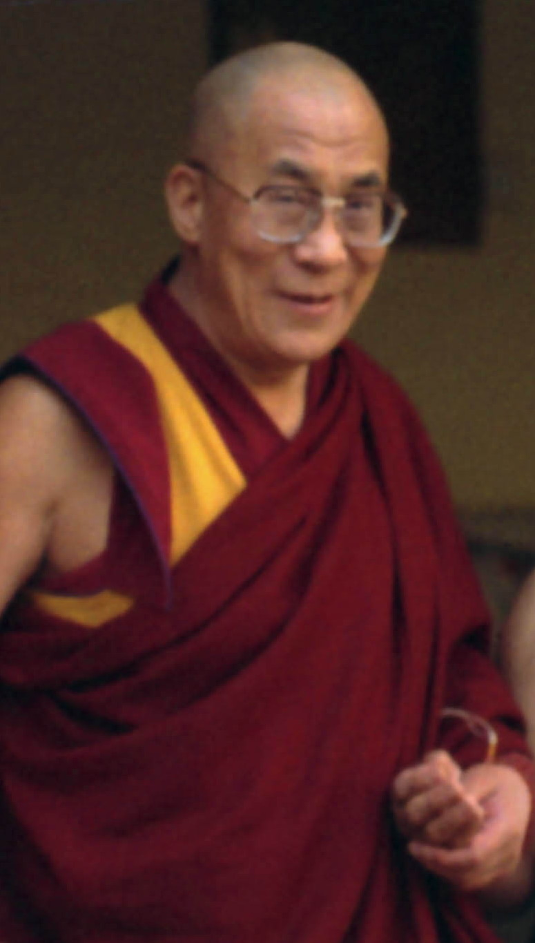 14th Dalai Lama, Dharasmala, India